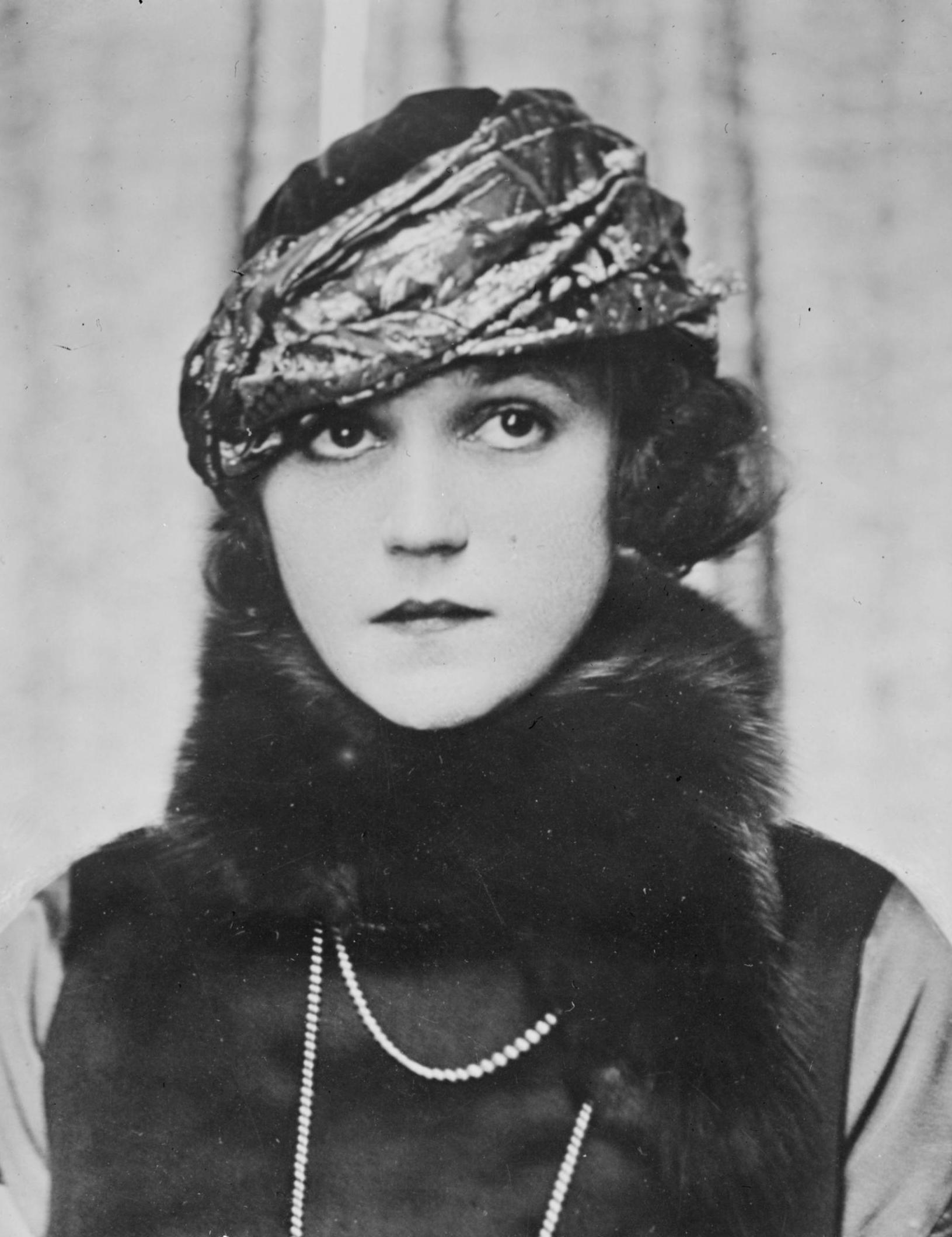 Actress, Alice Brady